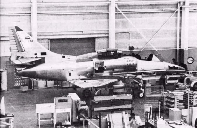 Assembly of McDonnell Douglas A-4KU Skyhawk fighter-bombers in the 1970s. This aircraft is (U.S. Navy) BuNo 160194.